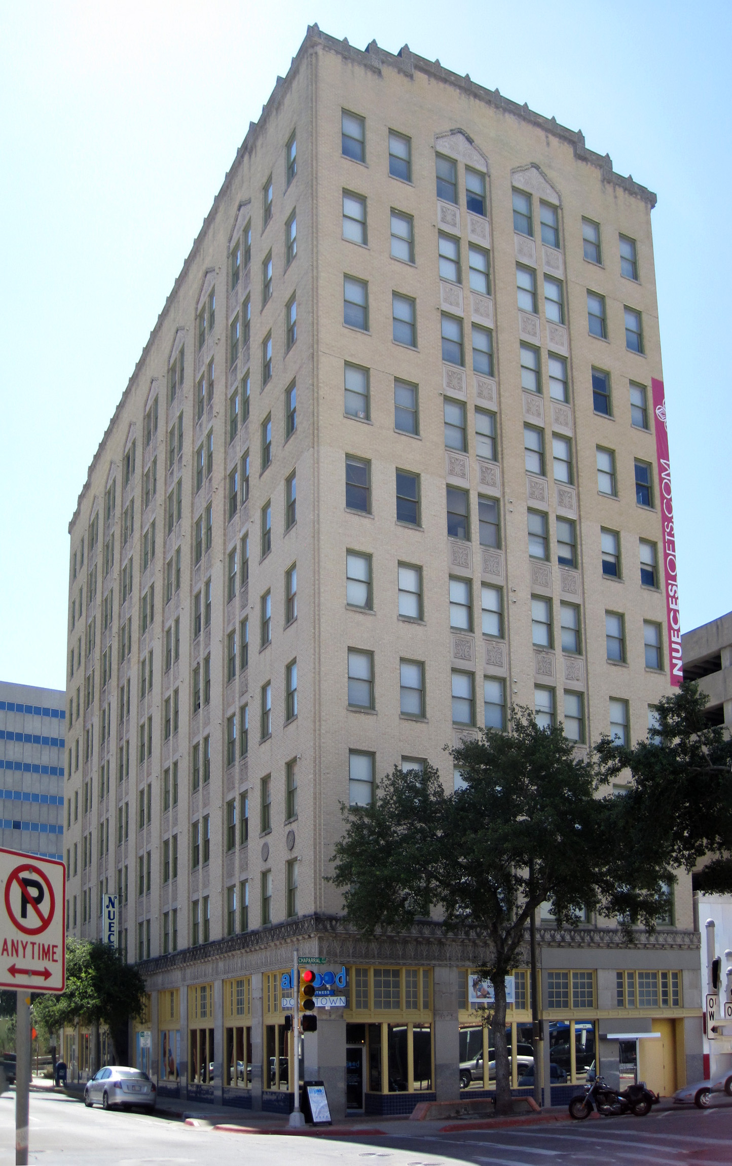 Image of the Sherman Building in Corpus Christi Texas. Site is on the National Register of Historic Places.